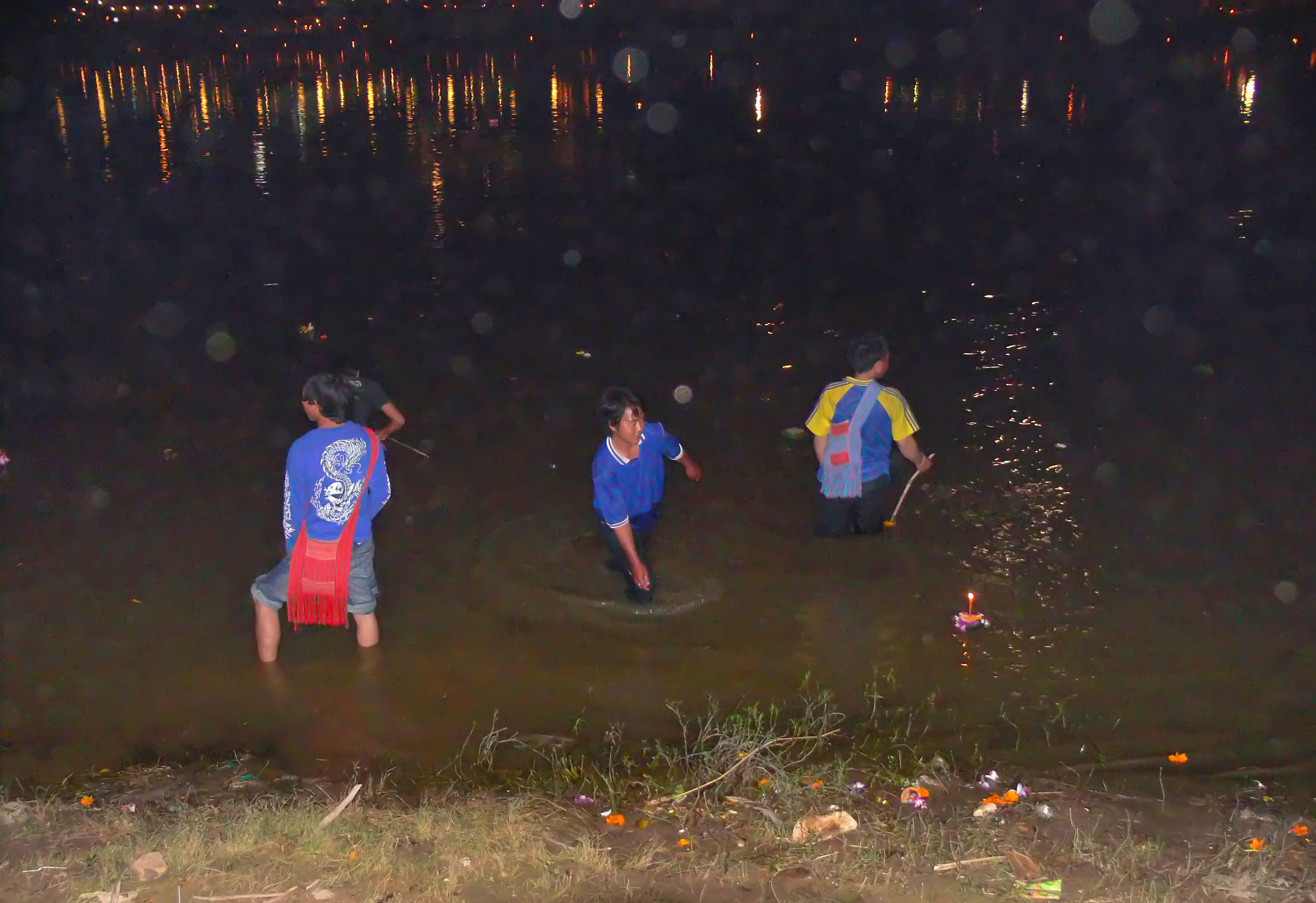 A few hundred meters downstream the coins are taken from the floating Krathongs.